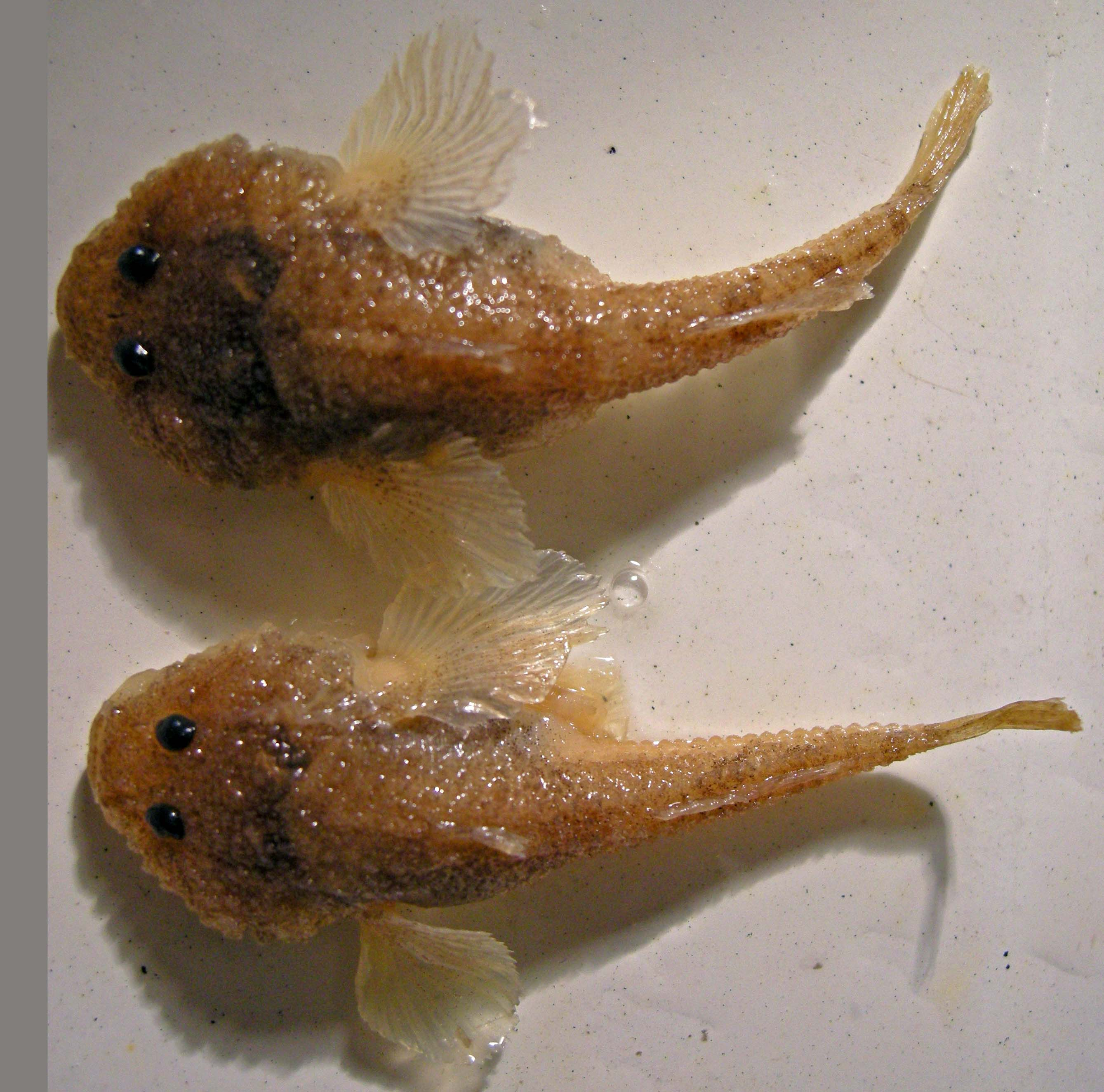 Don tadpole-goby (Benthophilus durelli), Don River. Specimens from the personal collection of Vasily Boldyrev, Volgograd Division of the State Institute of Lake and River Fisheries, Russia.